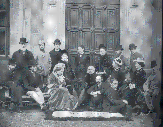 Photograph taken at Dalmeny House of a house party in 1879. Included in the photograph are William Ewart Gladstone and his wife and daughter Mary Gladstone, and the Earl and Countess of Rosebery. Also pictured is the Countess's cousin Ferdinand James von Rothschild. This photograph is 128 years old, thus in public domain by virtue of age. This photograph was taken by an unknown photographer in 1879. It is possible that the photograper was working for a local news agency, a political party or one of the sitters. However, nothing is known for sure. It was common to record house parties in this way at the time. This particular image is a scan of an original copy mounted on cardboard. Several copies were made and given to the sitters as mementos of the occasion. One copy is known to be in the ownership of the present Earl and Countess of Rosebery of Dalmeny House, Scotland. The particular copy scanned has come by descent to the uploader. Versions of the photograph, and some very similar to it have been published in various biographies of the 5th Earl of Rosebery.